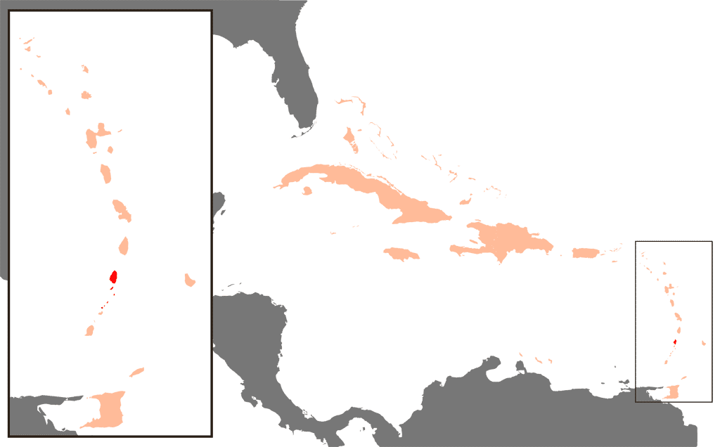 Position of St. Vincent and the Grenadines in the Caribbean